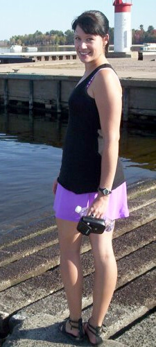 Andrea Muizelaar, the winner of Canada's Next Top Model, taken near Whitby, Ontario on Canadian Thanksgiving.